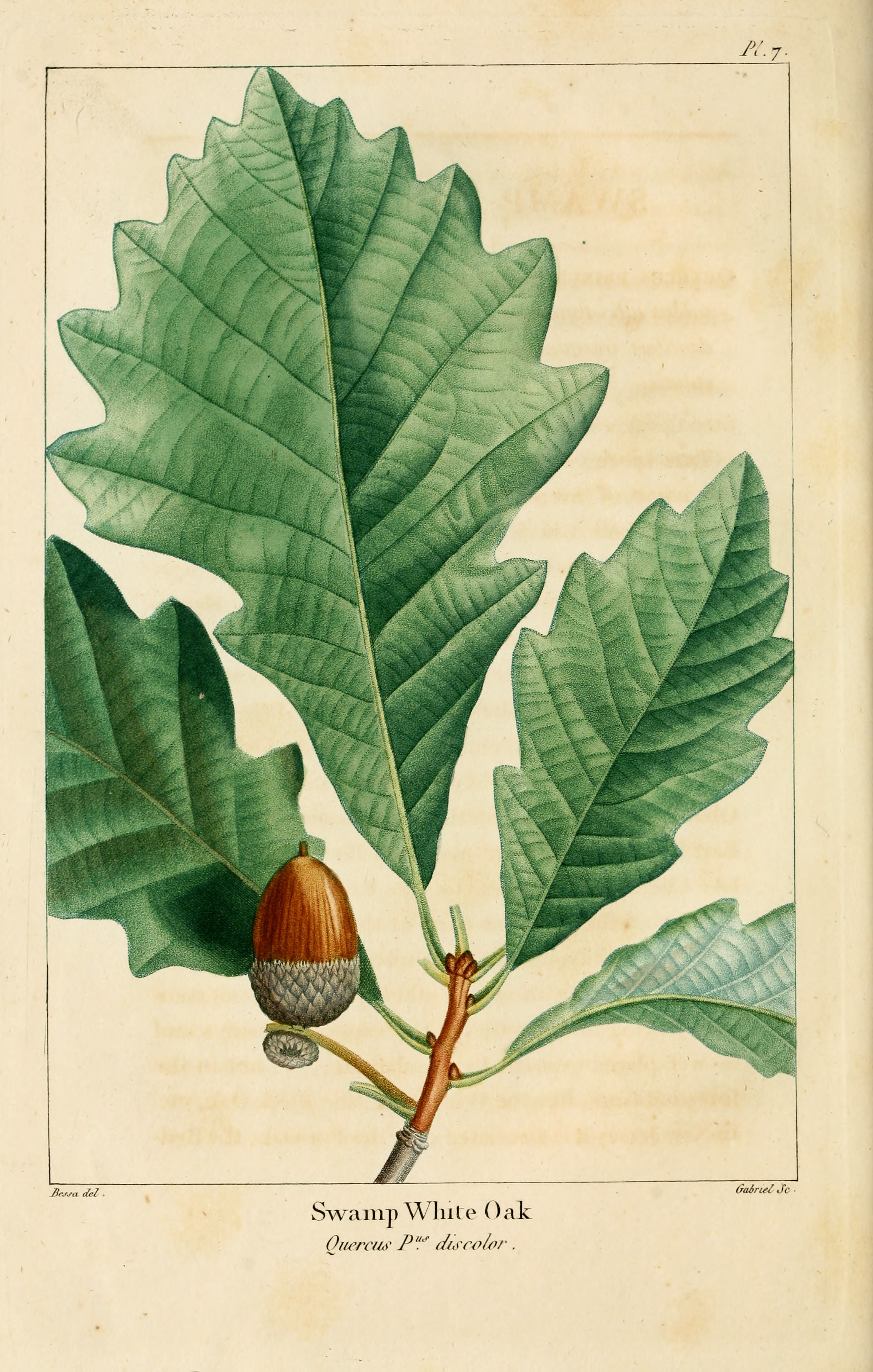 Quercus bicolor - Swamp White Oak (captioned: Quercus Pus. discolor [Q. prinus var. discolor])